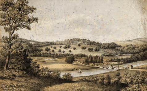 Engraving of Annery House, Monkleigh, North Devon, post 1872. Viewed from the east bank of the River Torridge in Weare Giffard parish, looking westward. Halfpenny Bridge was built as a toll bridge in 1835;(Scrutton, Susan, Lord Rolle's Canal, Great Torrington, 2006, p.23) part of the toll-house is visible to the extreme right on the river bank. The battlemented Annery Kiln with its ramp is visible on the far bank. Between Annery Kiln and the road can be seen the railway line opened in 1872 (Scrutton, Susan, Lord Rolle's Canal, Great Torrington, 2006, p.73) which followed the course of the former Rolle Canal. A train with 6 carriages is visible to the left travelling downstream towards Bideford.